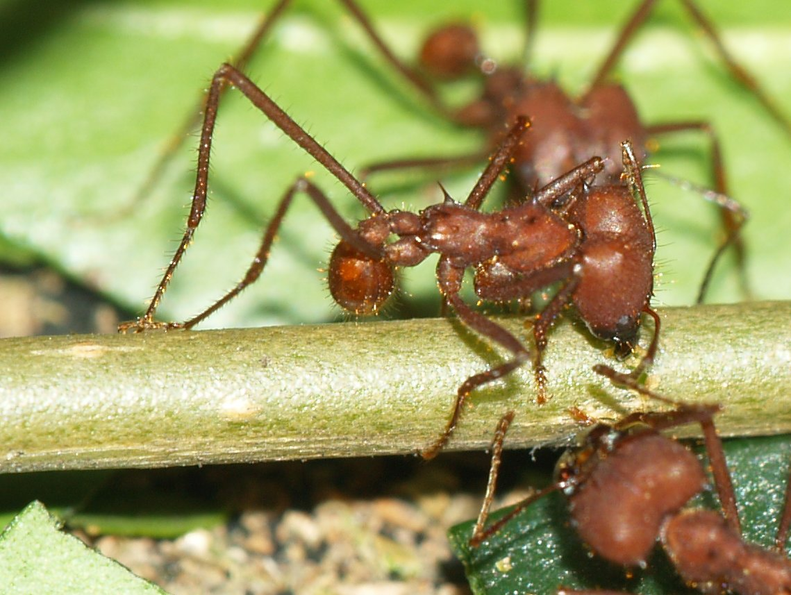 Atta cephalotes from Cologne Zoo, Germany.